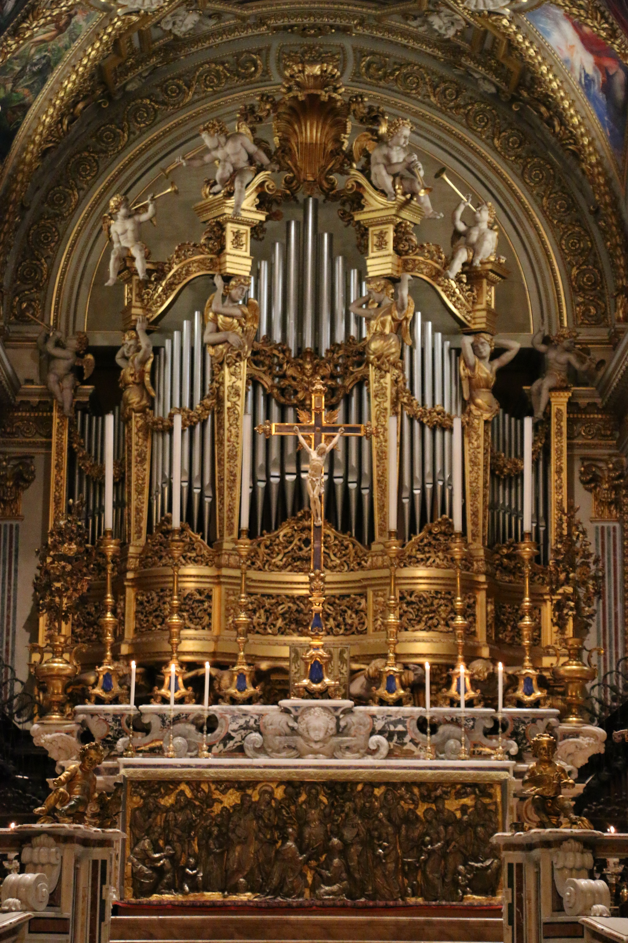 Abbazia Territoriale di Montecassino, Cassino, Lazio, Italy